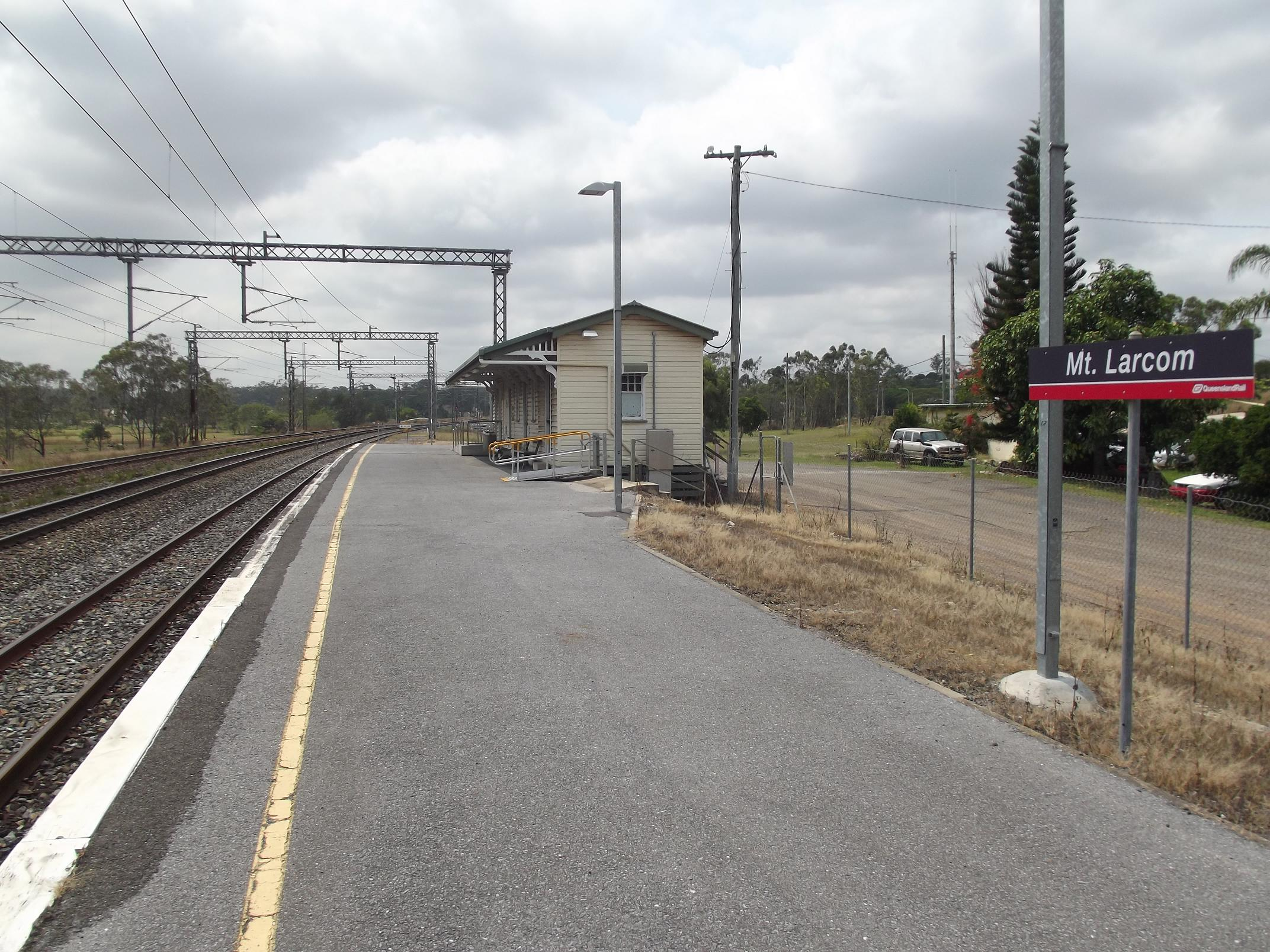 Mount Larcom railway station, located in Central Queensland on the North Coast line.